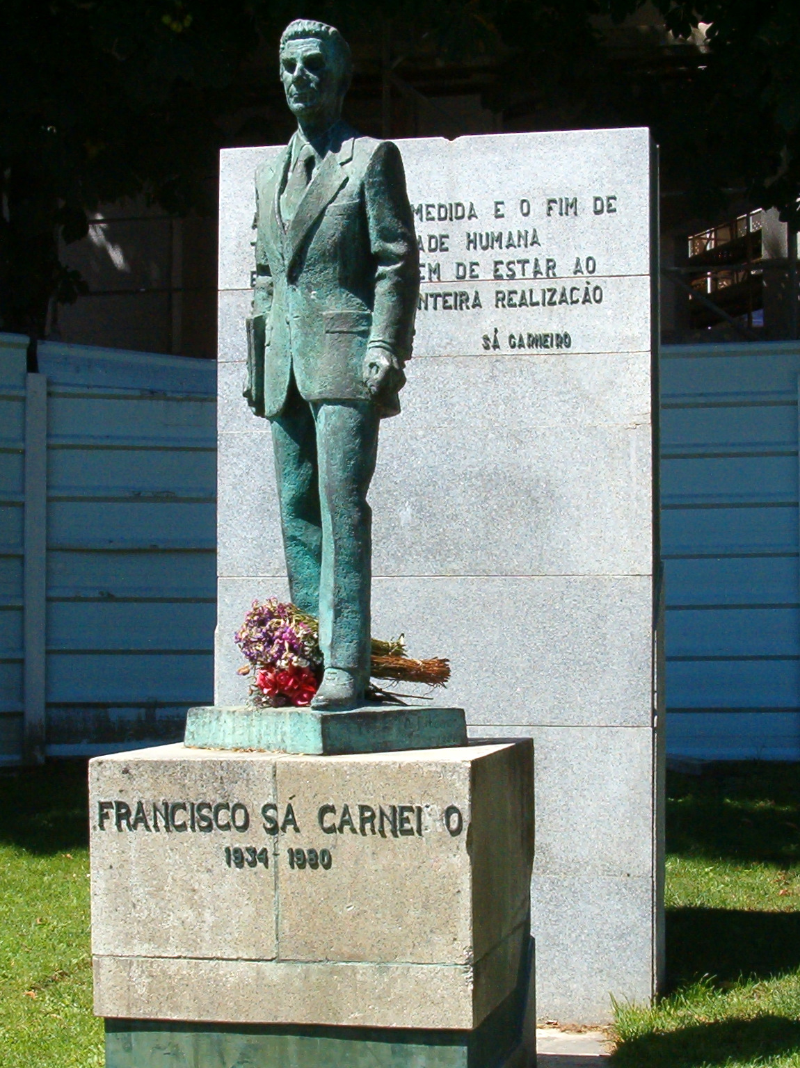 Francisco Sá Carneiro in Viseu